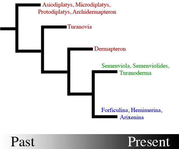 This is a chart showing the phylogenesis of older suborders, genera, and species of earwig. The ones marked in red are extinct genera in the Archidermaptera suborder. The ones marked in blue are the three living suborders of earwigs. The ones marked in green are extinct genera in the Pandermaptera suborder.